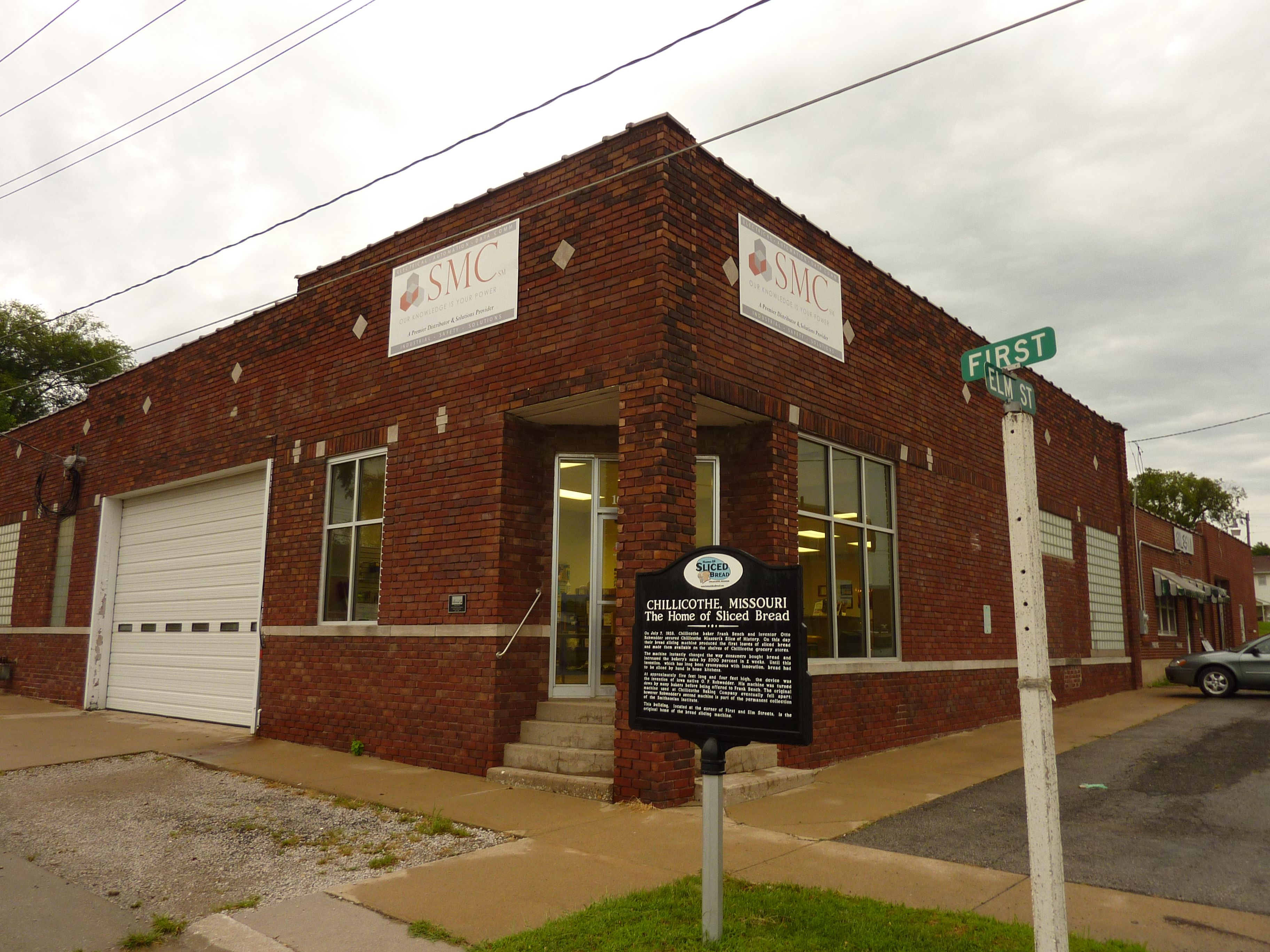 Birthplace of Sliced bread in Chillicothe, Missouri